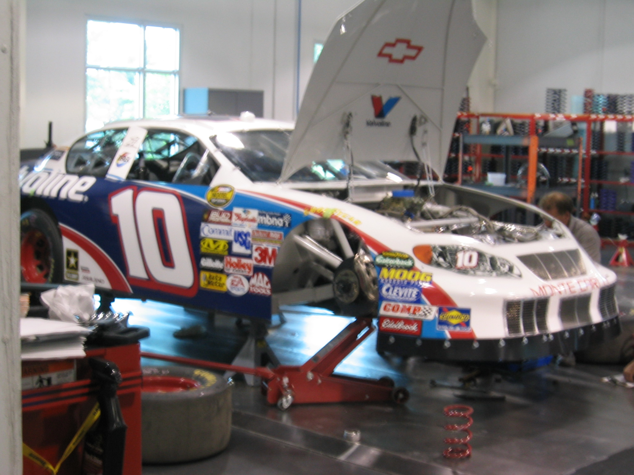 The No. 10 Valvoline Chevrolet in the race shops at MBV Motorsports in 2005.